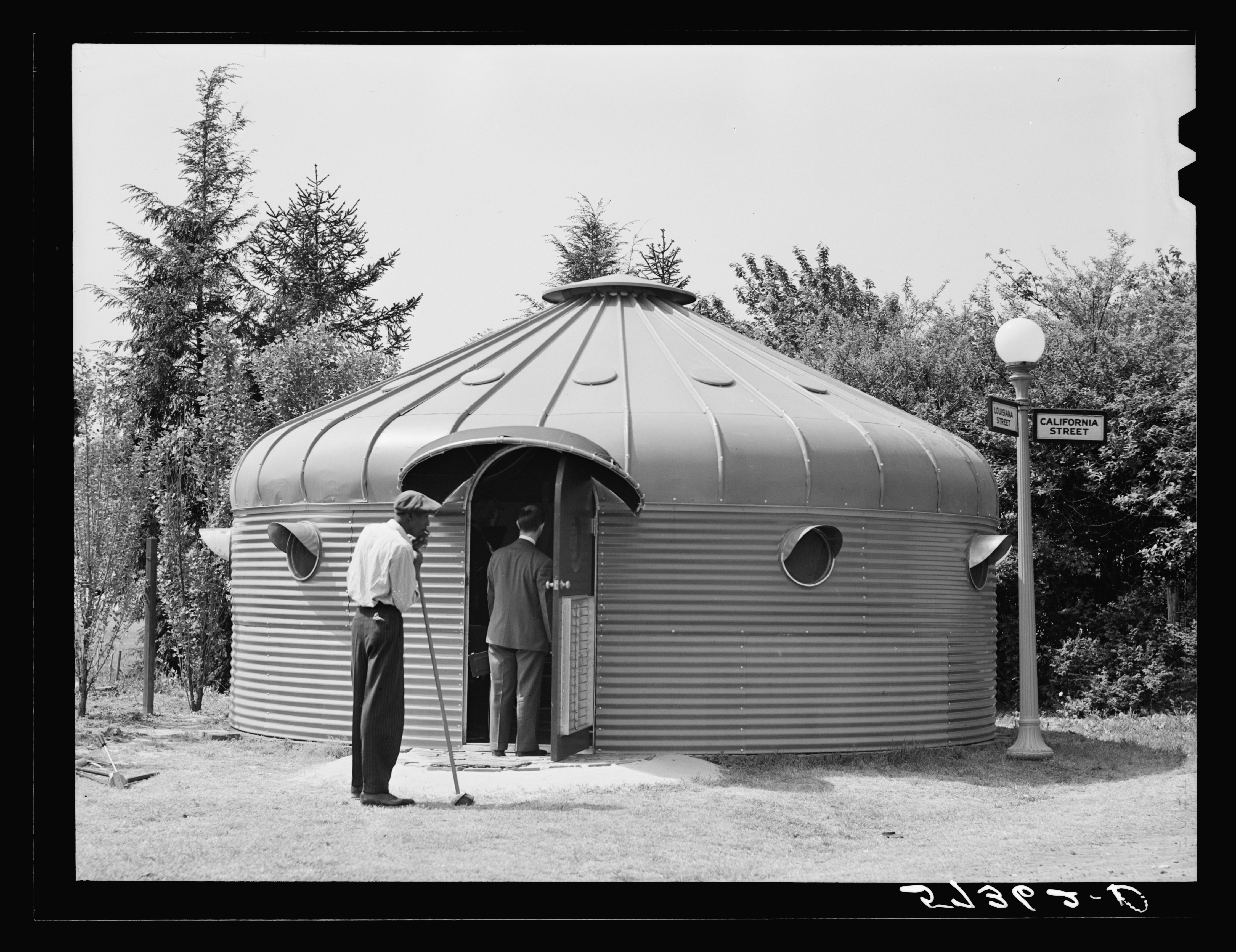 Historic photograph of the Diamaxion (Dymaxion) house, metal, adapted corn bin, built by Butler Brothers, Kansas City. Designed and promoted by R. Buckminister Fuller. Kansas City, Missouri, USA, from the Library of Congress. Wolcott, Marion Post, 1910-1990, photographer; created 1941 May for the U.S. Farm Security Administration / Office of War Information. This photograph is in the public domain because it was created by the United States Government.